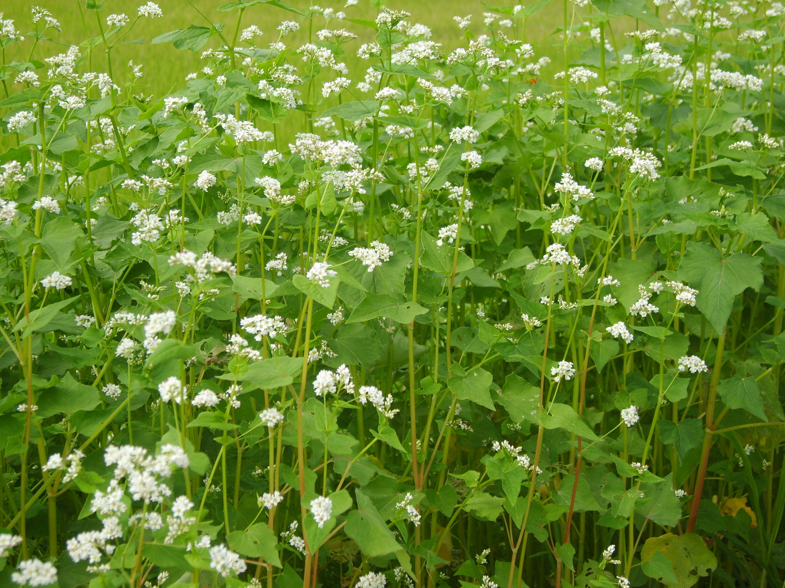 Fagopyrum esculentum in Gimpo, Korea